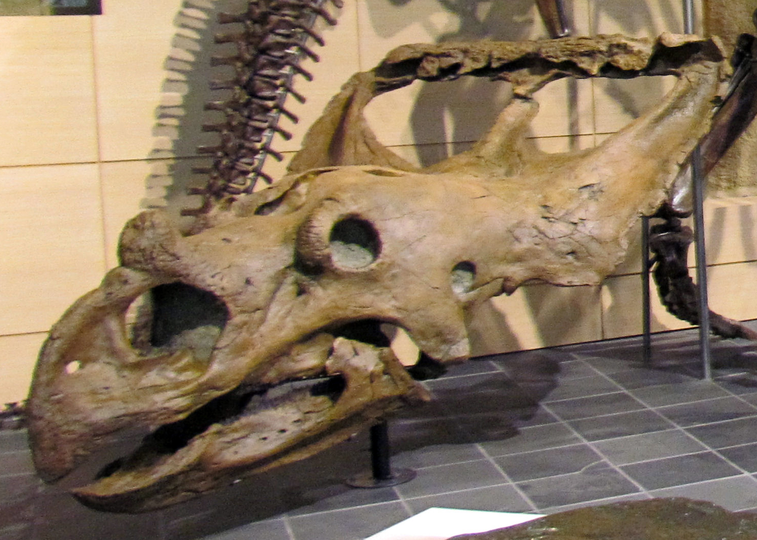 Vagaceratops irvinensis skull at Canadian Museum of Nature, Ottawa, Ontario, Canada